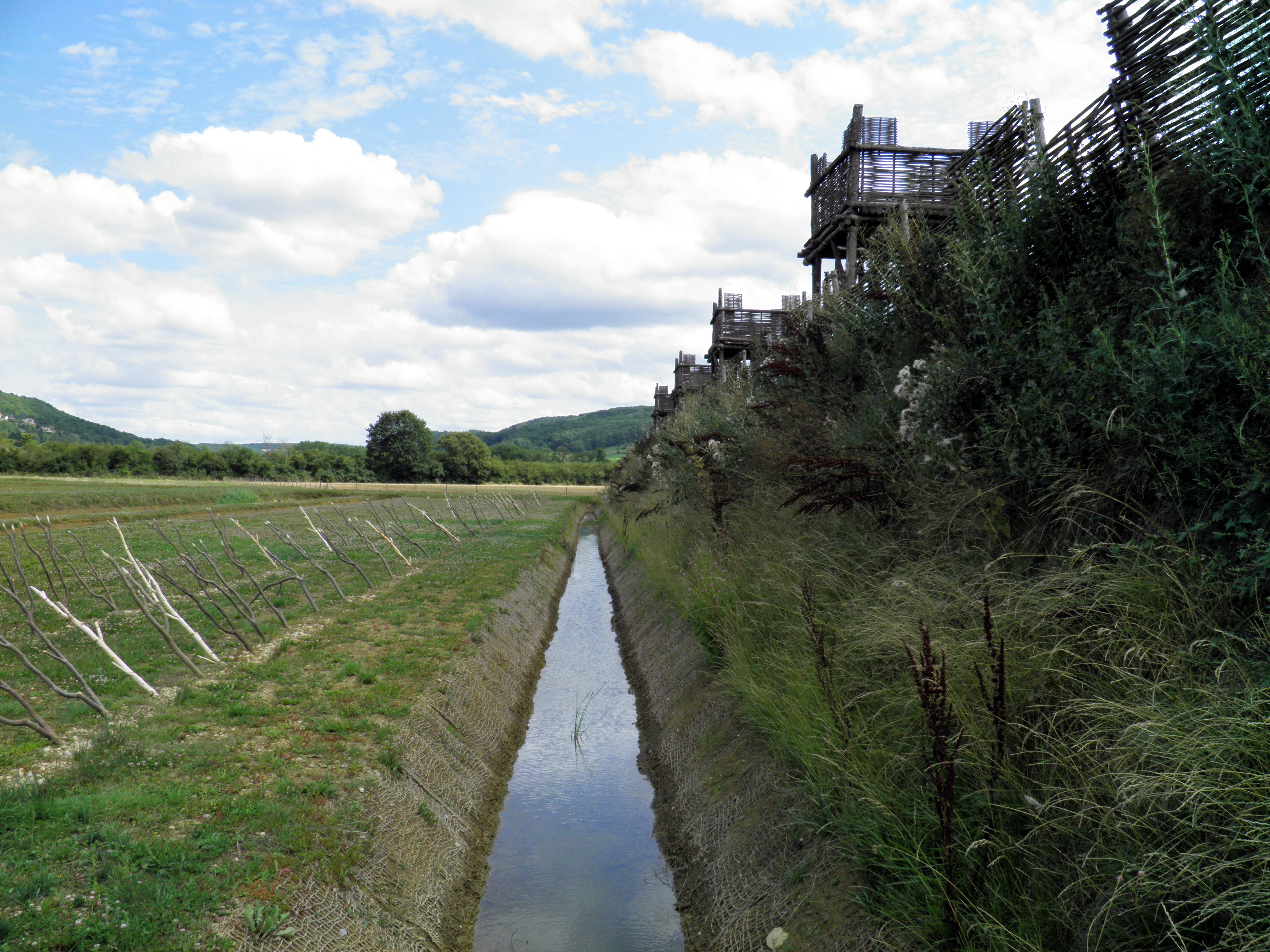 In the plain, two trenches were the first obstacles positioned in front of the contravallation line. At the moment of the siege (late summer - early fall) the first and the widest was filled with water channeled from a stream, while the second was dry. The next obstacle was a 14 - 17 m wide glacis followed by two types of trap. First came the stimuli, metal goads embedded in short stakes planted in the ground and arranged in six rows in a staggered formation; A third, apparently dry, trench bordered the foot of the rampart.